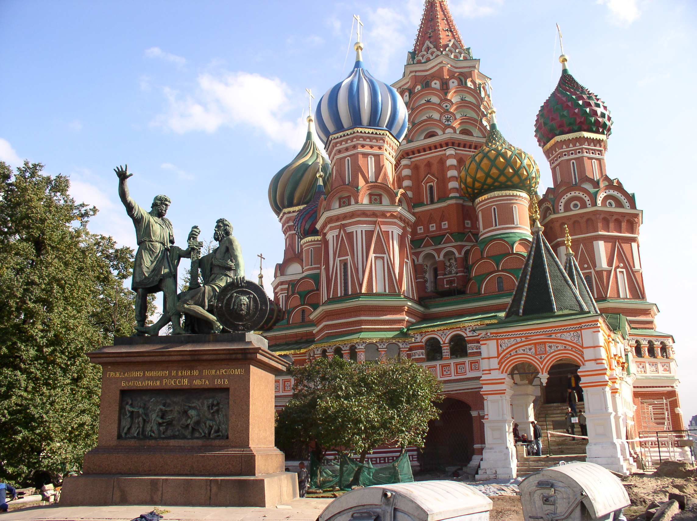 Saint Basil's Cathedral. Moscow, Russia.